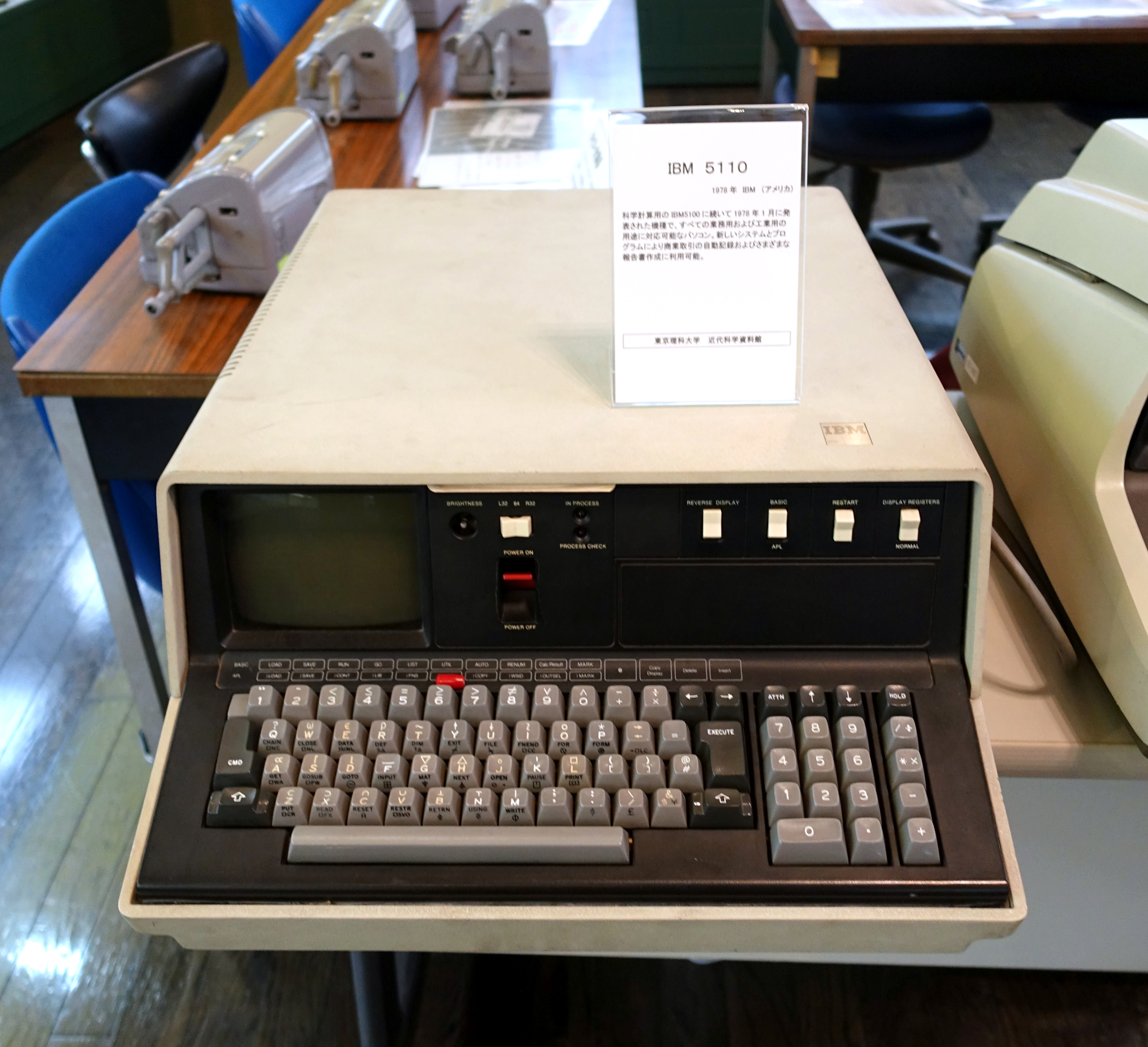 Exhibit in the Ridai Museum of Modern Science, Tokyo University of Science, Kagurazaka campus - 1-3 Kagurazaka, Shinjuku-ku, Tokyo.